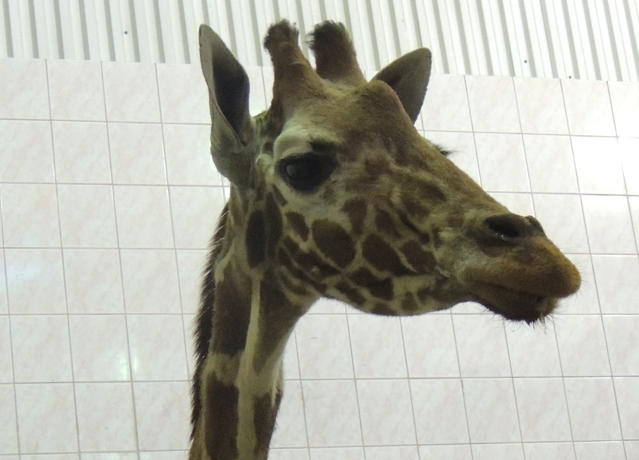 Giraffes Luga (2016-11-01)